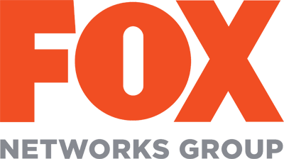 Fox Networks Group Logo (orange)